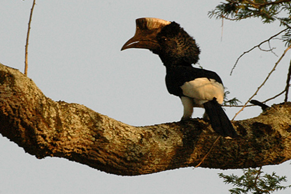 Uganda Black-and-white-casqued Hornbill (Bycanistes subcylindricus)